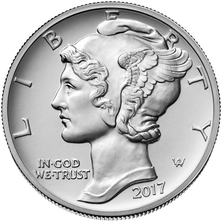 Obverse of a $25 Palladium Eagle bullion coin issued in 2017.